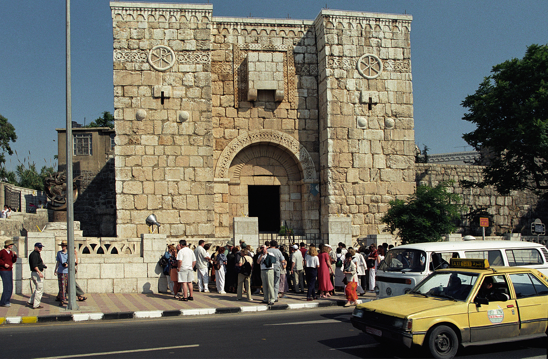 Damascus, St. Paul's chapel